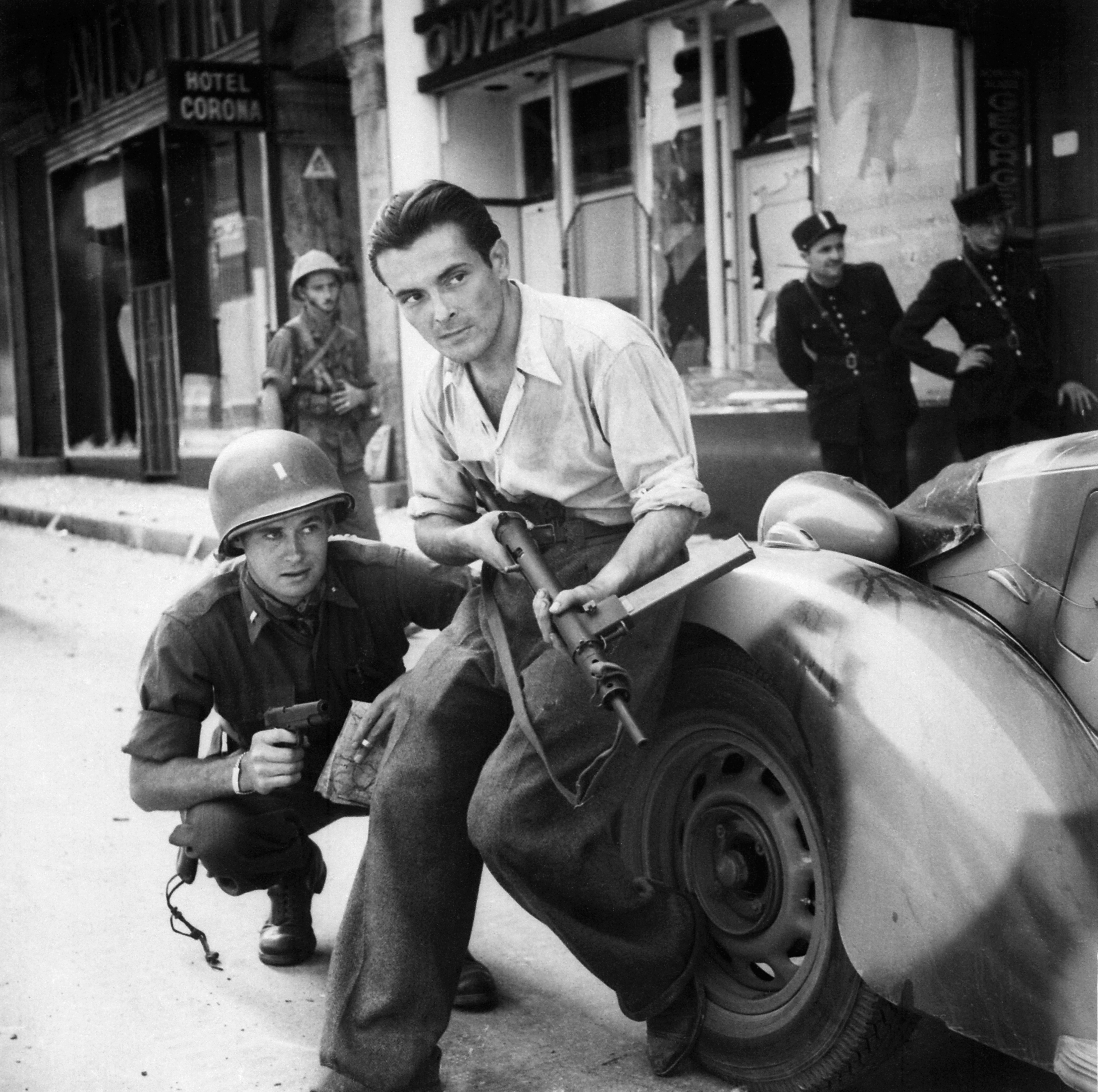 General notes: Use War and Conflict Number 1055 when ordering a reproduction or requesting information about this image.